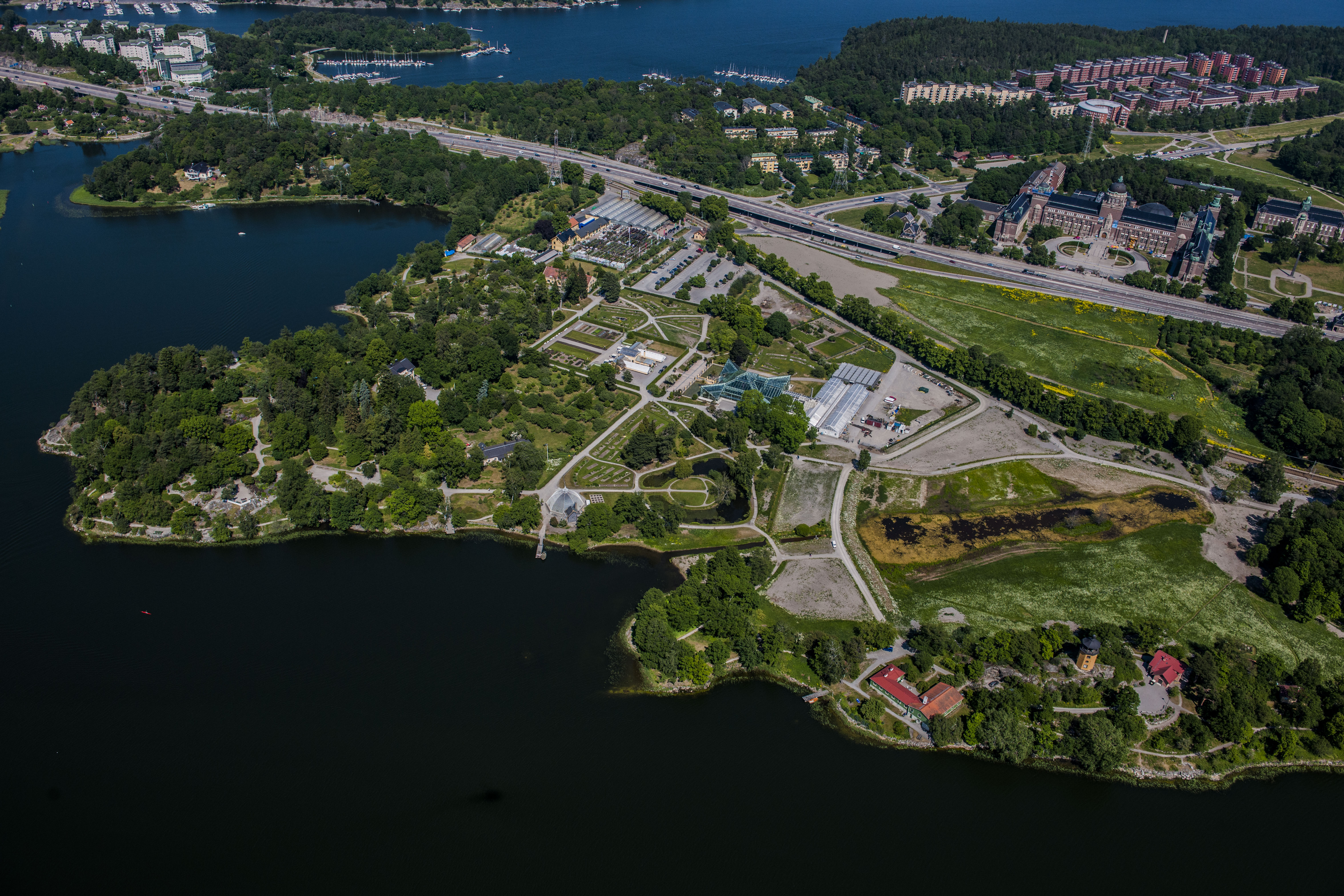 The Bergianska garden